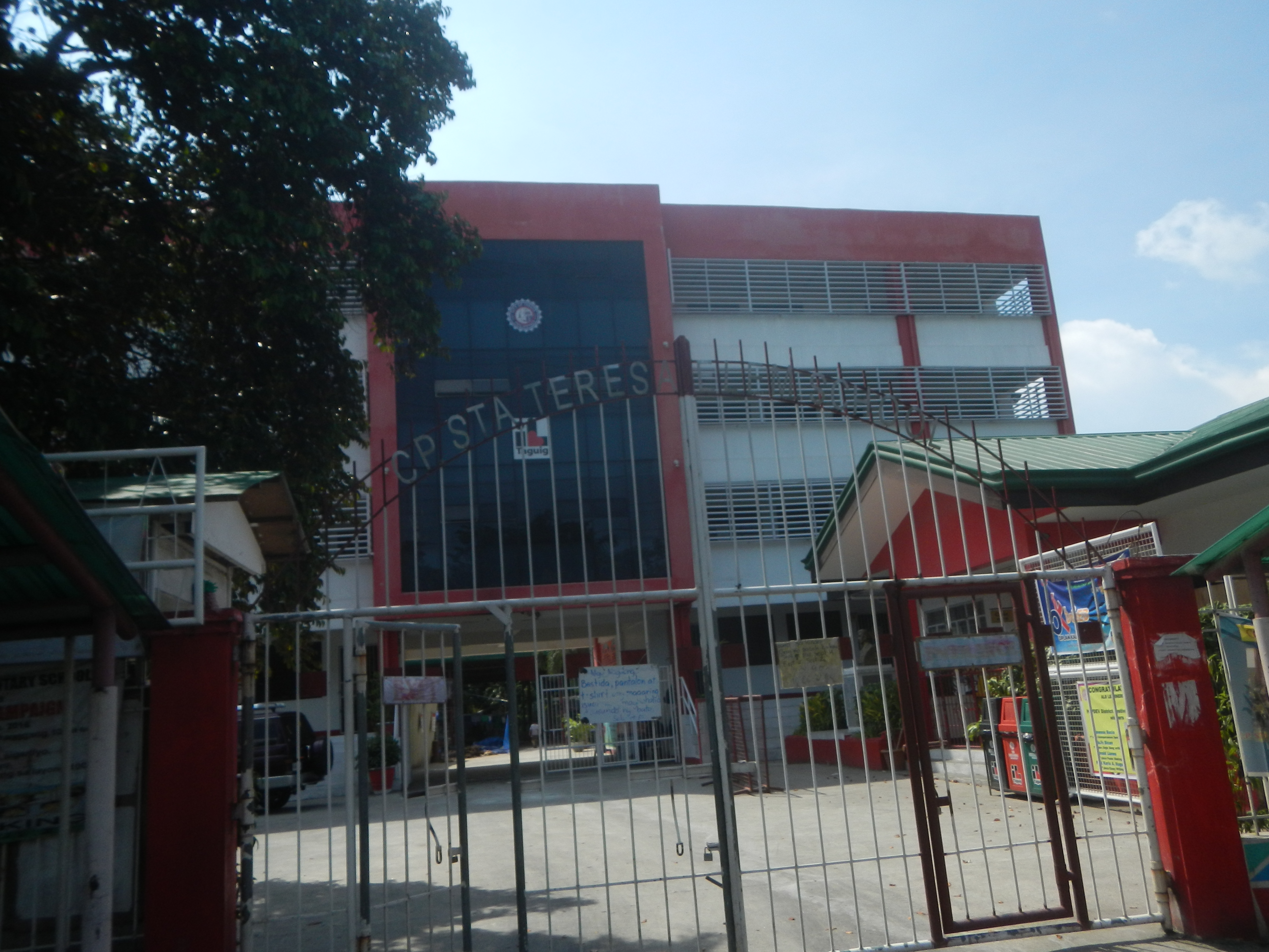 Bagumbayan, Taguig City Taguig Bagumbayan Industrial Commercial Association, Inc. Batisan Bridge (Bagumbayan, Taguig City) Legislative district of Taguig City Legislative district of Pateros-Taguig City Barangays Tanyag 14°28'43"N 121°2'54"E Bagumbayan 14°28'33"N 121°3'18"E Bagumbayan, Taguig, Upper Bicutan Upper Bicutan 14°29'52"N 121°2'59"E Barangay Western Bicutan, Taguig City Western Bicutan (Taguig) 14°31'3"N 121°2'22"E Taguig City bounded by List of barangays of Metro Manila, Legislative districts of Parañaque 1st District, Districts and barangays, San Martin de Porres 14°28'54"N 121°2'33"E Parañaque City (Note: Judge Florentino Floro, the owner, to repeat, Donor Florentino Floro of all these photos hereby donate gratuitously, freely and unconditionally all these photos to and for Wikimedia Commons, exclusively, for public use of the public domain, and again without any condition whatsoever).